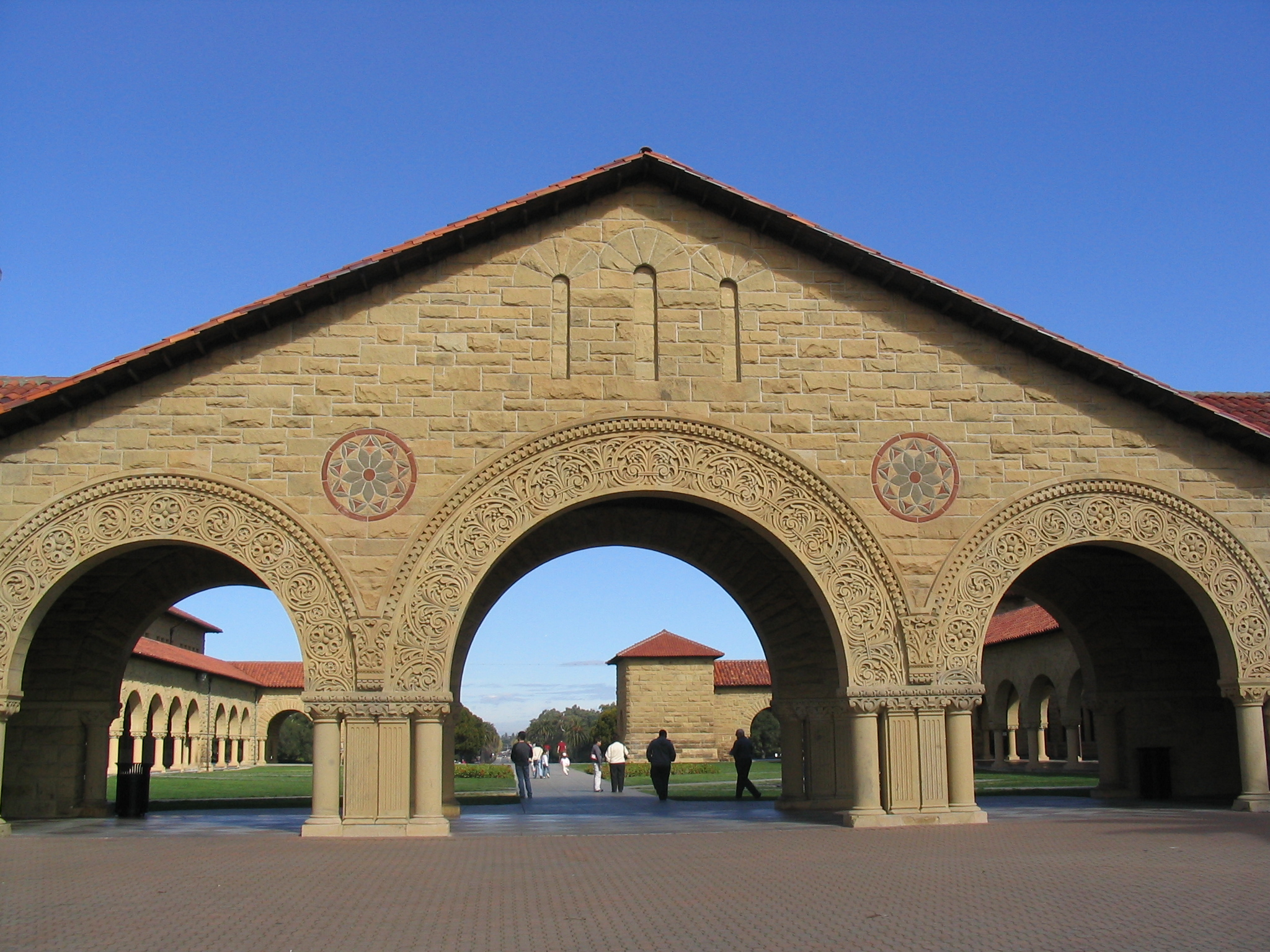 Stanford University, Stanford (CA), place and park in front of the Memorial Church